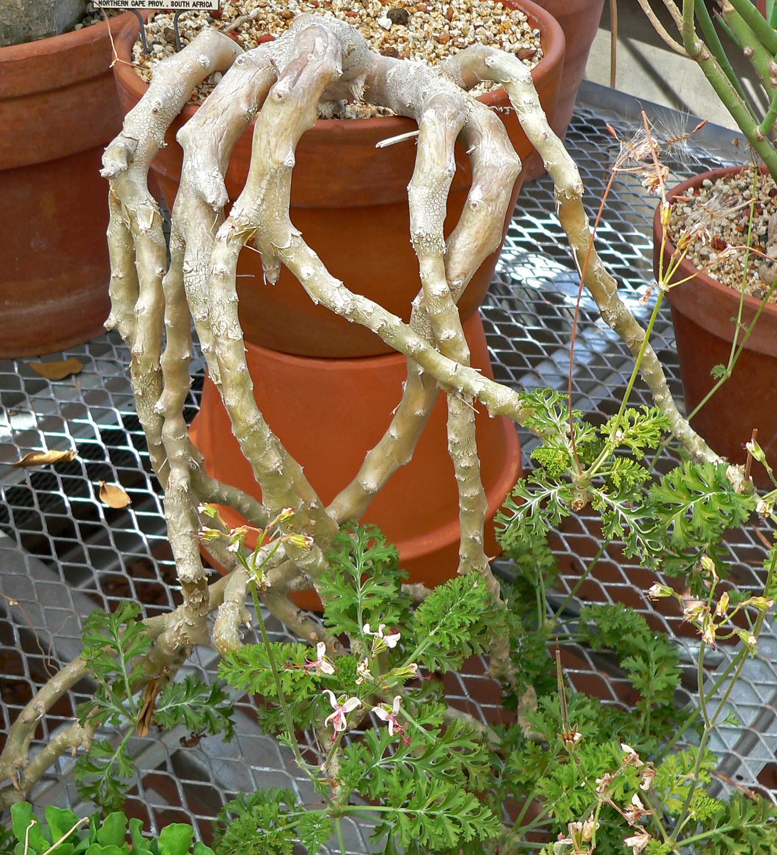 Pelargonium carnosum at the University of California Botanical Garden, Berkeley, California